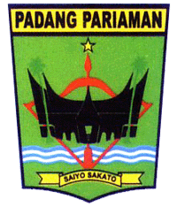 Coat of arms of Padang Pariaman Regency, West Sumatra